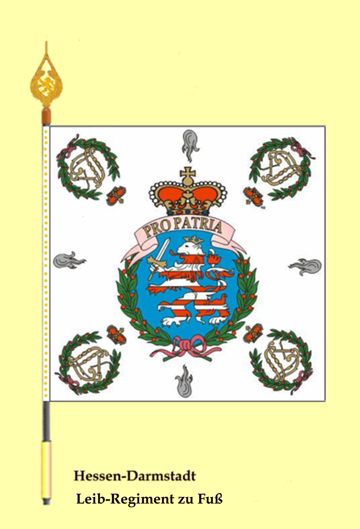 Colors of the Count of Hessen-Darmstadt's "Lifeguard-Infantry Regiment"